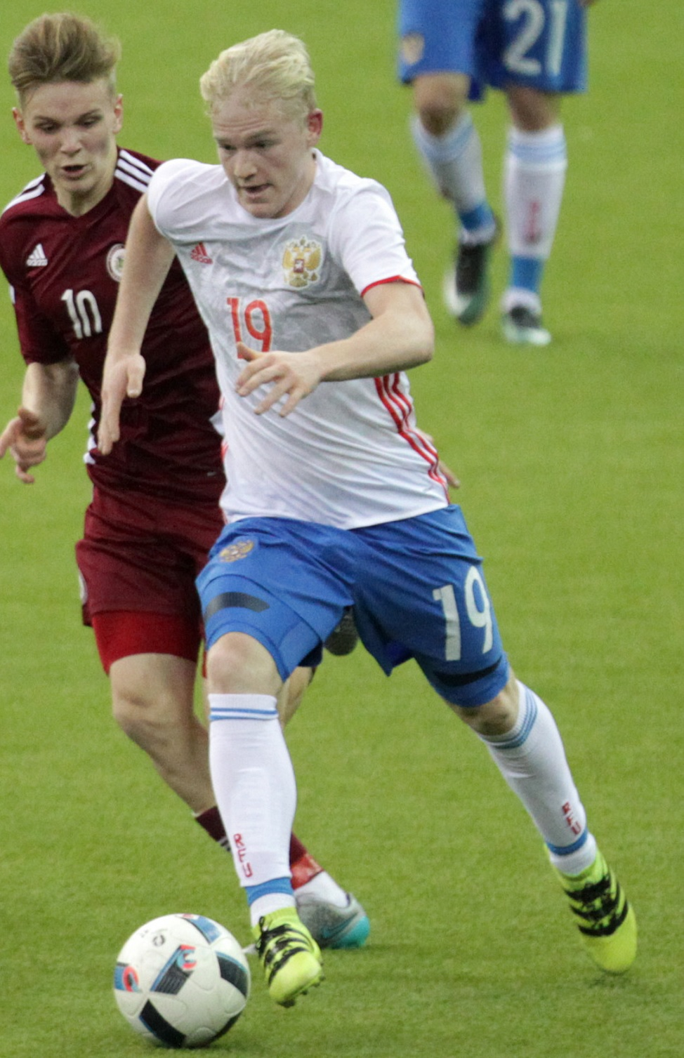 Dmitri Veber with Russia U-18 in a game against Latvia U-18 at the Granatkin Memorial.